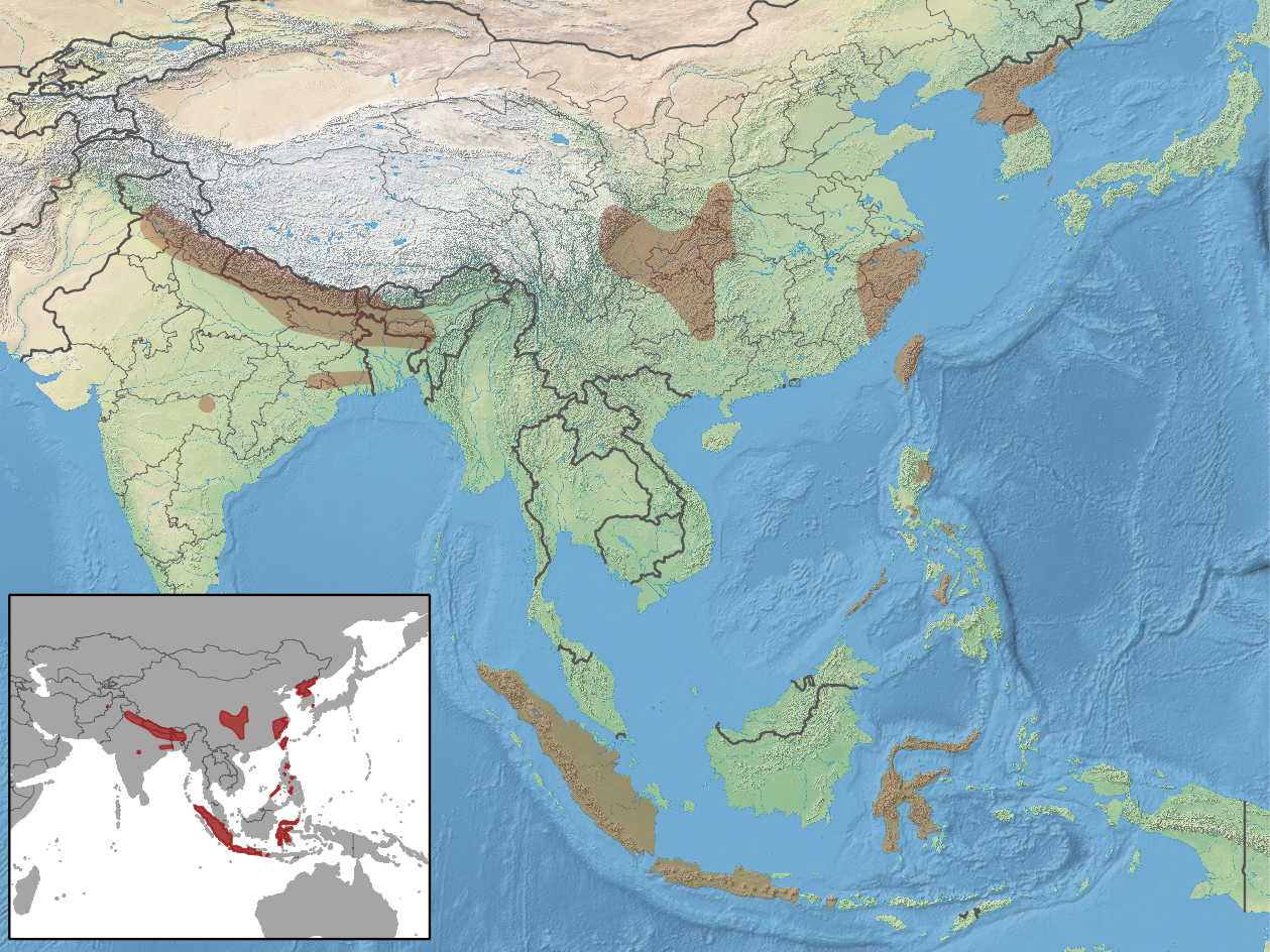 geographic distribution of Myotis formosus